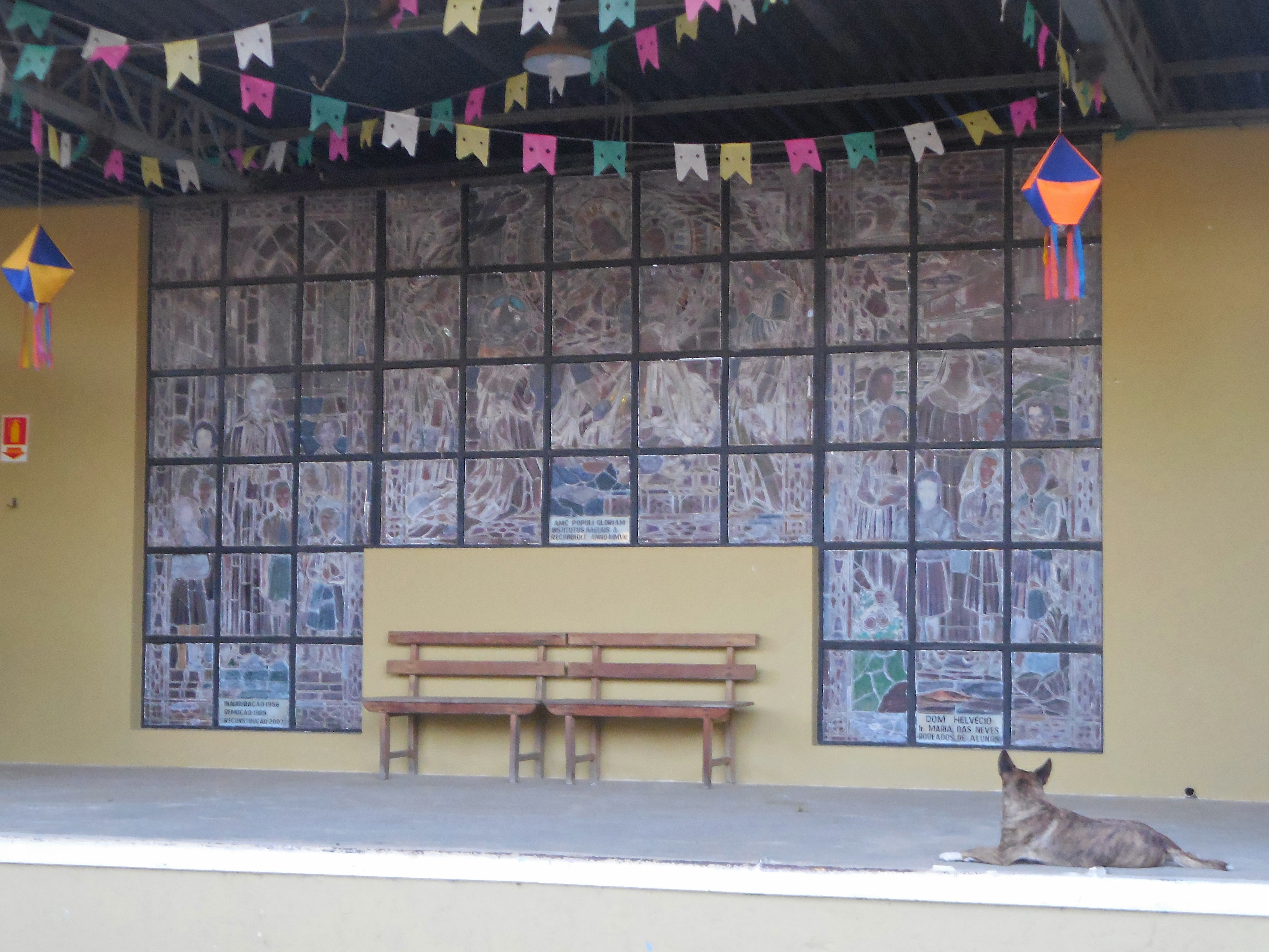 Stained glass of the Carmelites in the Instituto Hélio Amaral, in Caratinga, Minas Gerais, Brazil.